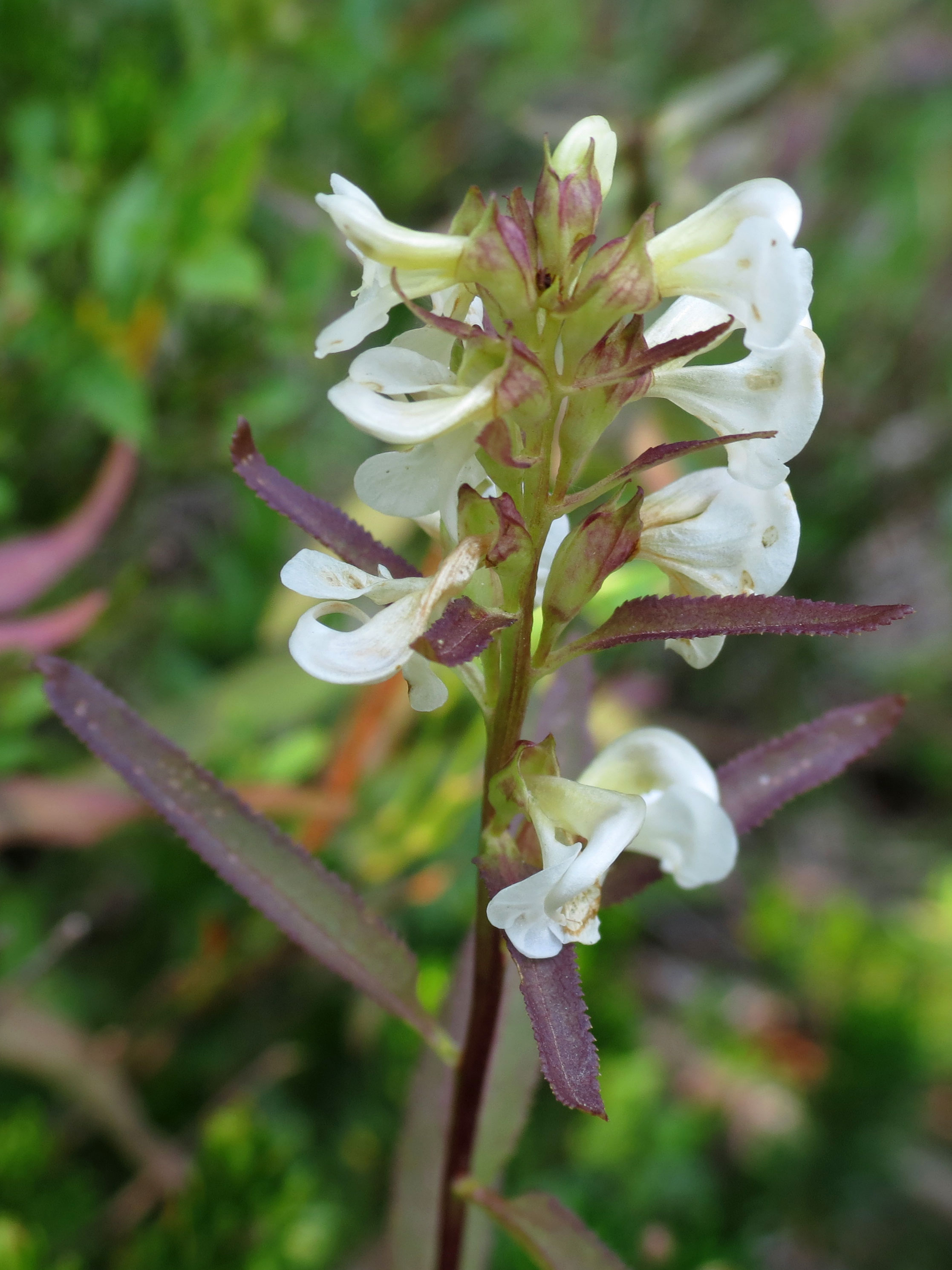 Pedicularis racemosa. Sawtooth National Forest near Stanley, Idaho.